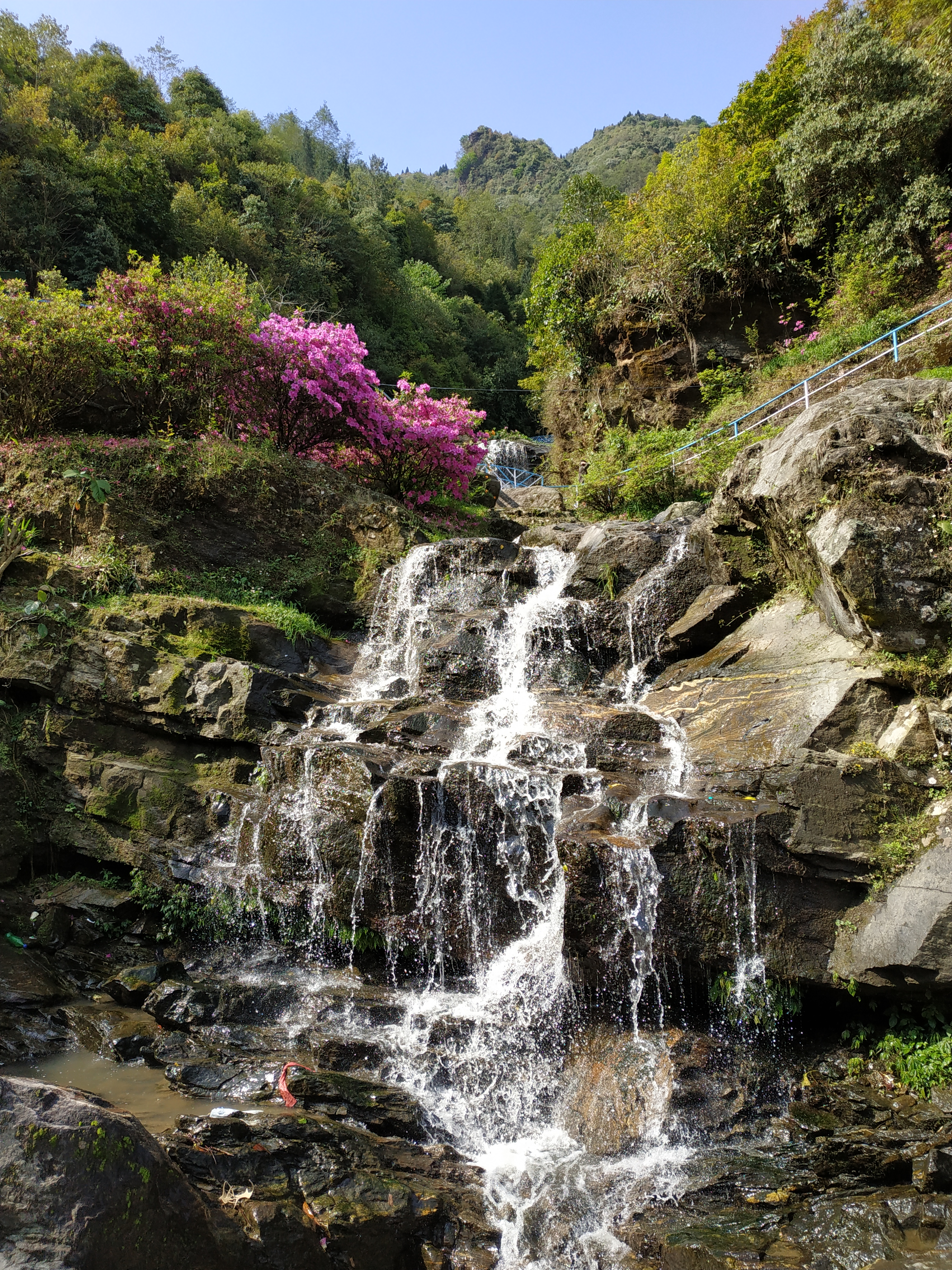 The Rock Garden or Barbotey Rock Garden at Chunnu Summer Falls and Ganga Maya Park is a tourist attraction in the hilly town of Darjeeling in the state of West Bengal, India.